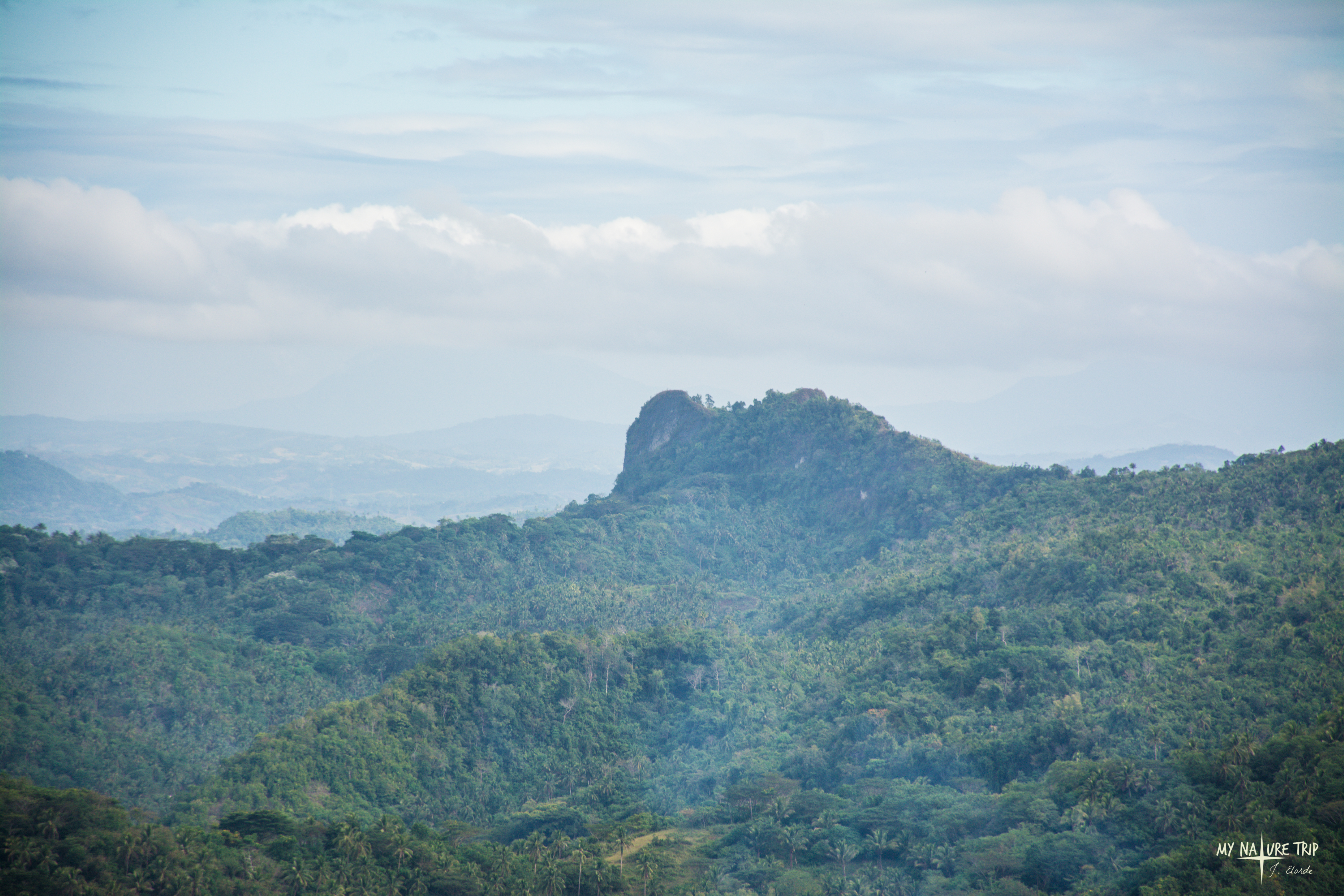 The Buga-buga mountain viewed from barangay Abijao, Villaba, Leyte